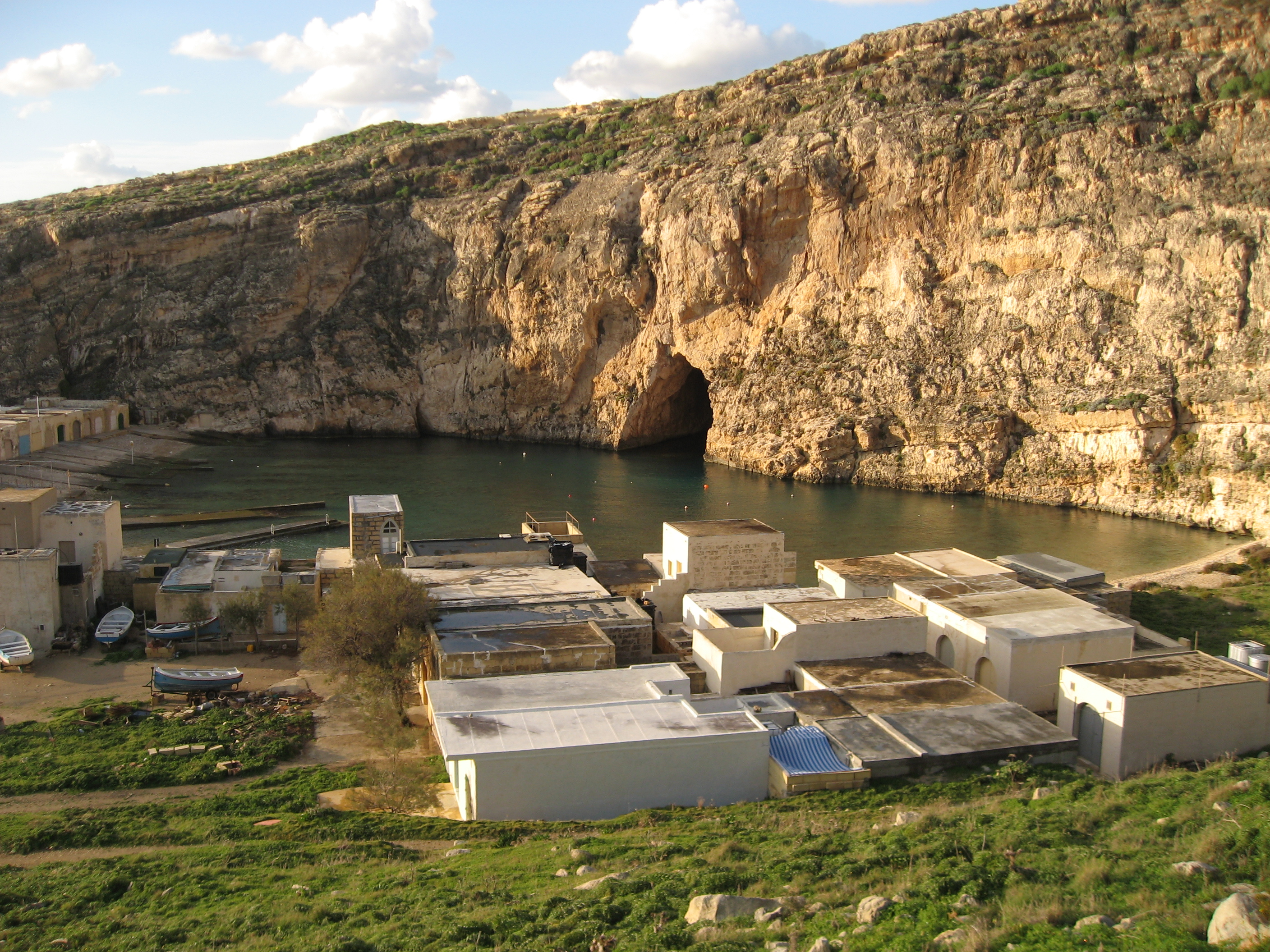 The Inland sea